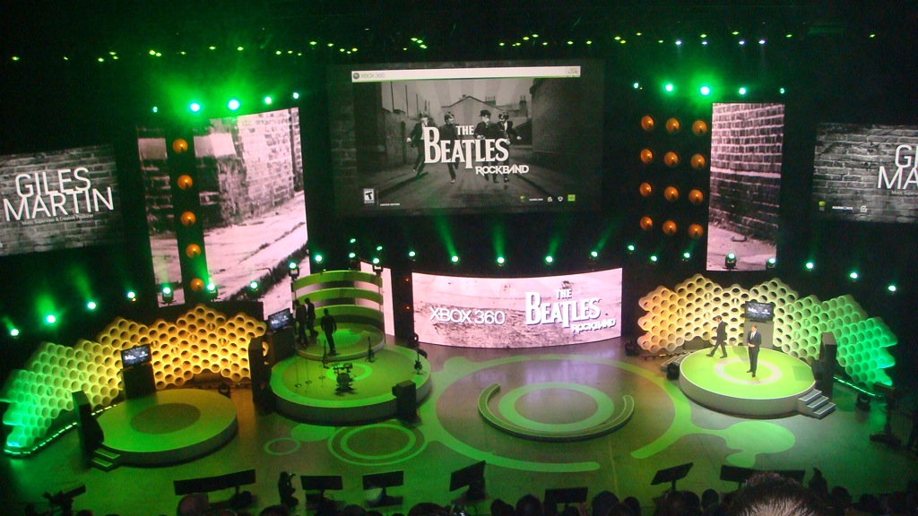 Rock Band Beatles - E3 2009